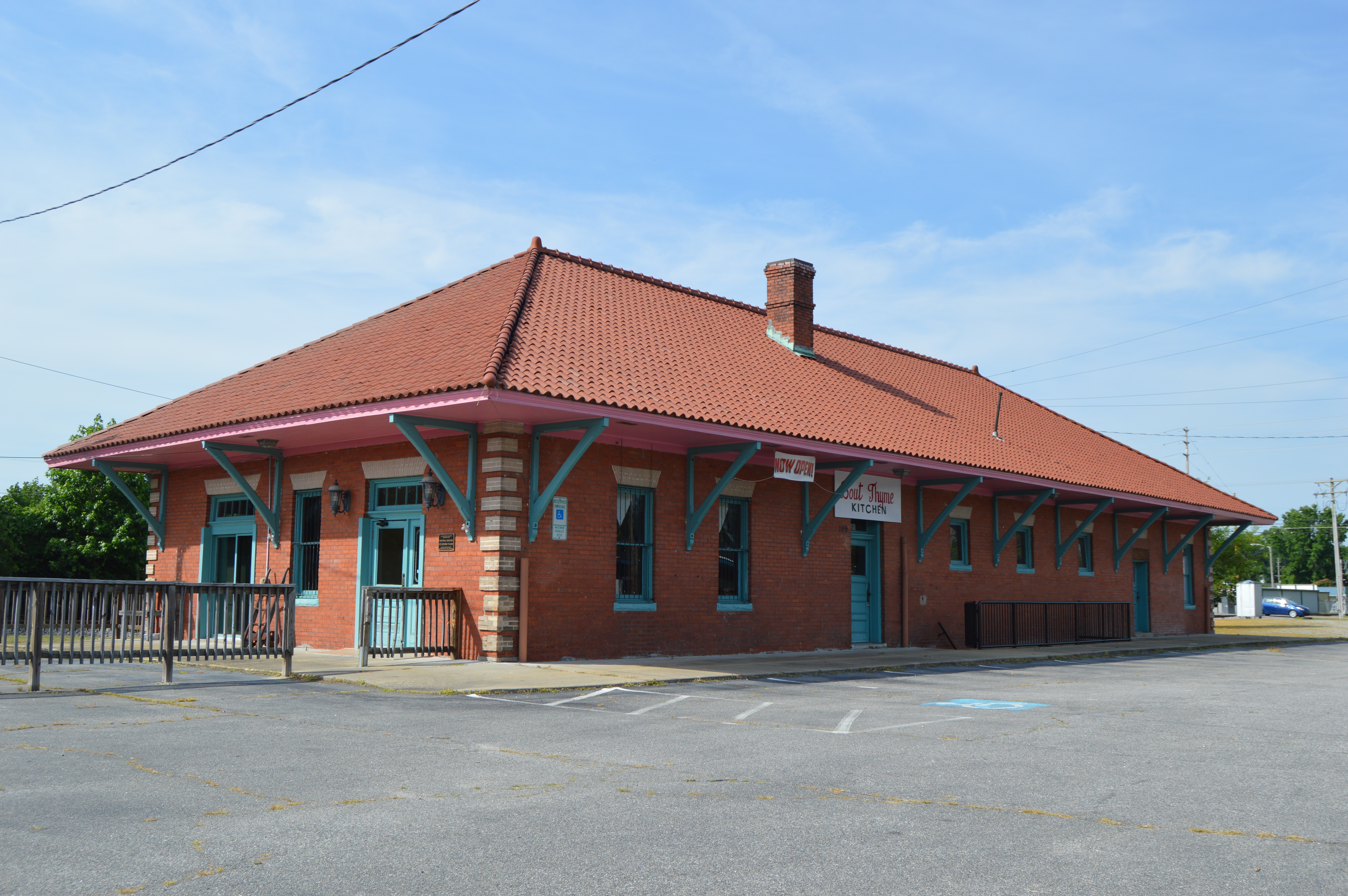 Front and southwestern side of the Norfolk Southern Passenger Station, located at 109 S. Hughes Boulevard (U.S. Route 17 in Elizabeth City, North Carolina, United States. Built in 1914, it is listed on the National Register of Historic Places.